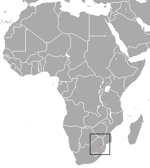 Robust Golden Mole (Amblysomus robustus) range